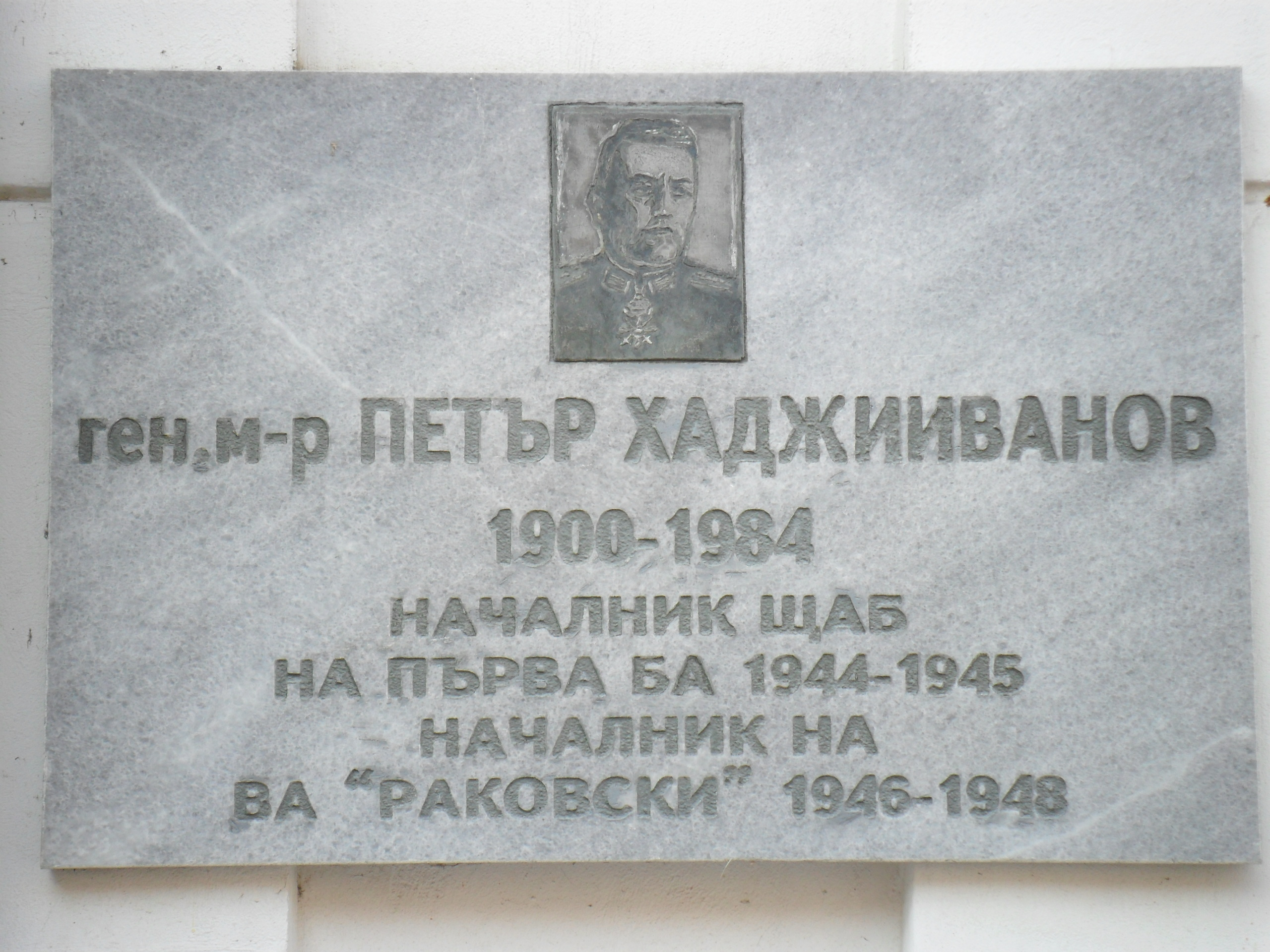 Plaque of Petar Hadziivanov in Shumen